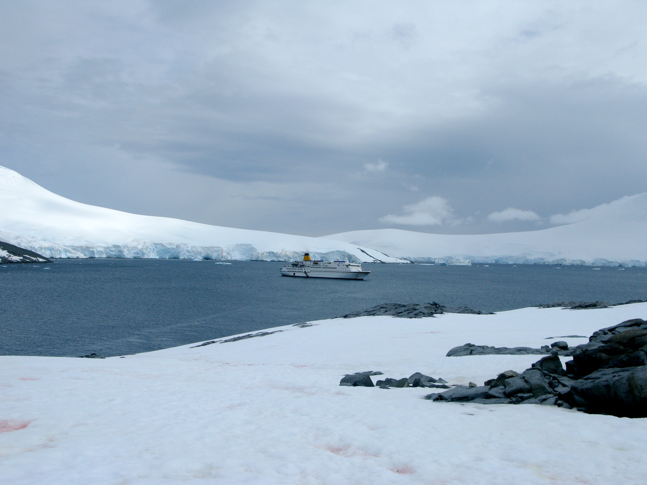 Port Lockroy Station - Tourist Ferry (Antarctic)